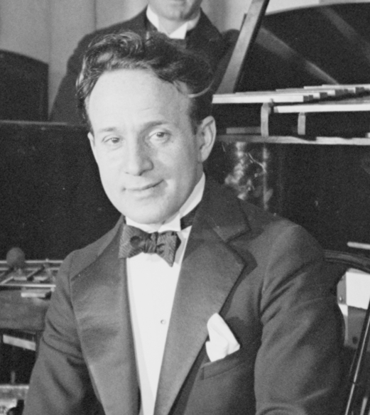 "The Victor Salon Orchestra" leader Nathaniel Shilkret.